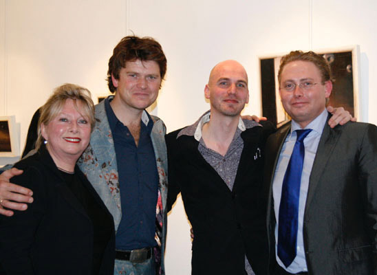 Chris Berens (second from the right) with Beau van Erven Dorens (second from the left) and the Jaski owners